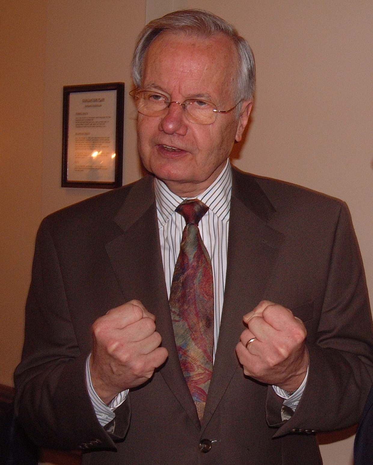 US journalist and commentator Bill Moyers